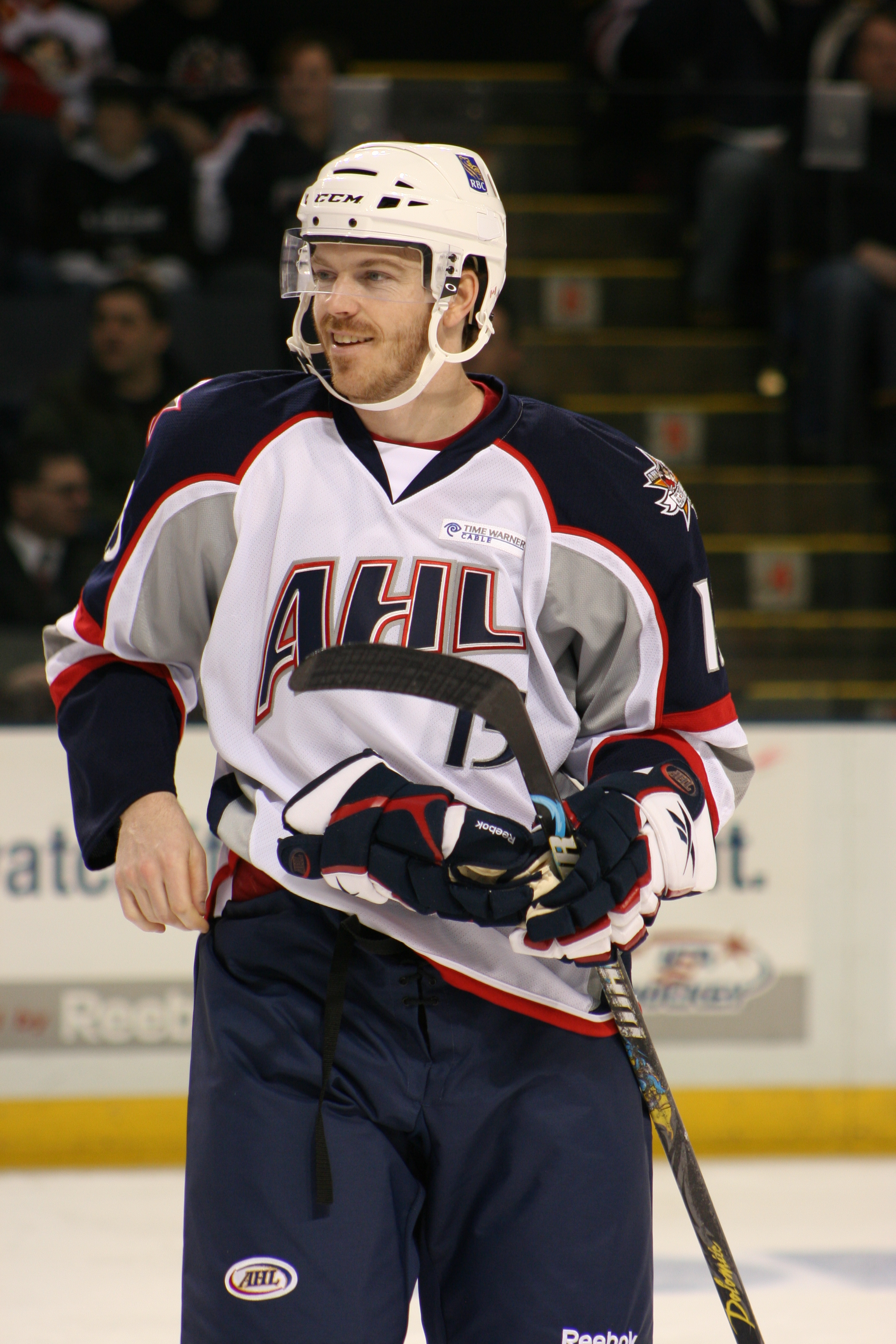 Patrick Rissmiller